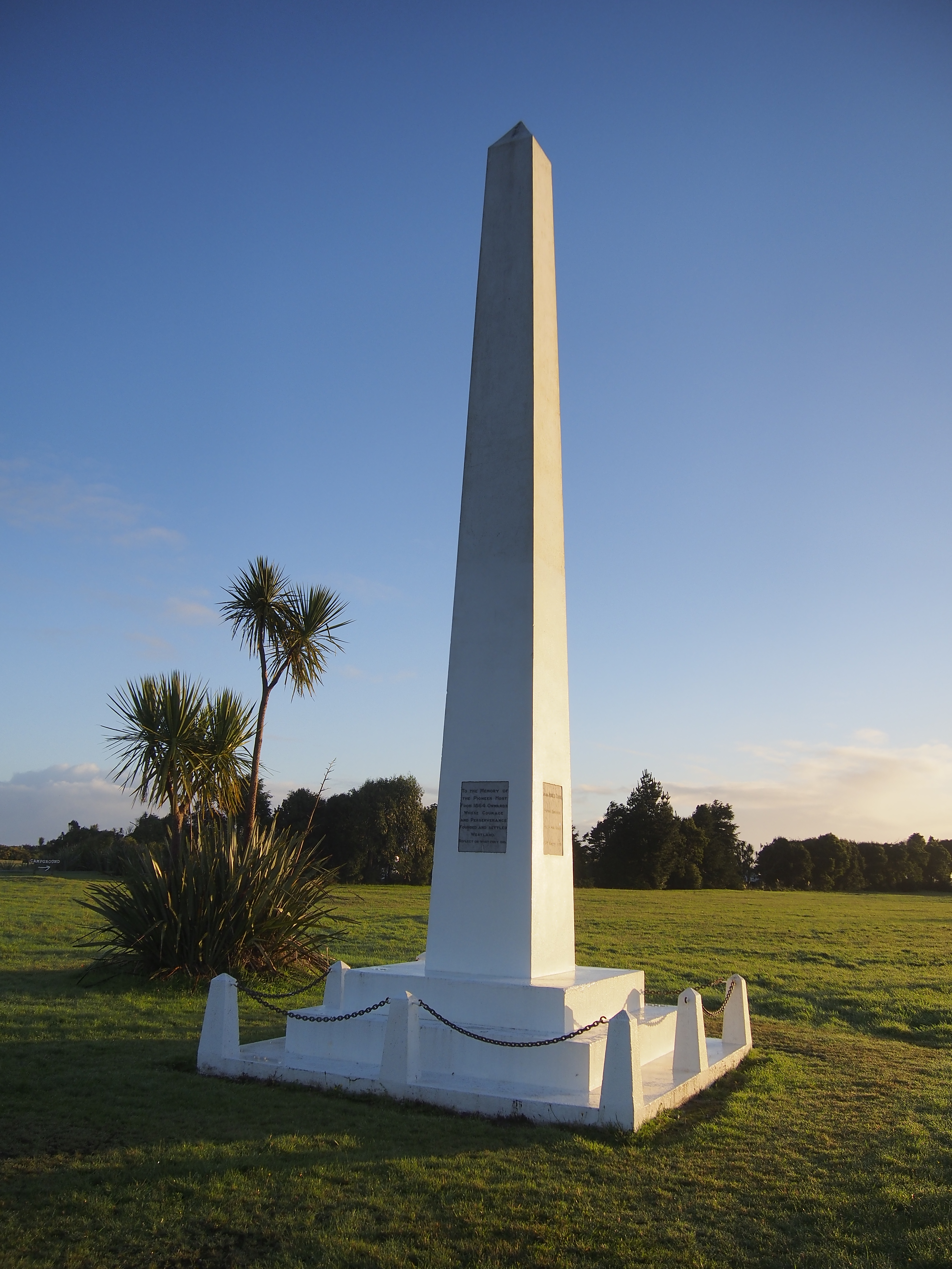 This monument is one of the very few commemorating Tasman's sighting of New Zealand. The obelisk was unveiled on May 21 1940 by the then Minister of Public Works, Robert Semple. Originally it had been intended to erect the monument at the trig station near Okarito but this plan was abandoned as it would have been too difficult to transport the materials to the summit of such a steep hill, 137.25 metres above sea level. The County Council therefore decided to build the obelisk in front of the Okarito School. The monument was erected at a cost of £150, which was raised by public subscription. Unveiled during New Zealand's Centennial Year (1940), the obelisk commemorates the efforts of the Westland pioneers and three events which made their achievements possible. Abel Tasman's sighting of New Zealand in 1642 is thought to have occurred when he was sailing off the coast from where Okarito now stands. As recognition of his achievement was a feature of Westland's centenary celebrations, it was appropriate that the event be recorded on one of the obelisk's commemorative panels. In 1770 James Cook's voyage of discovery served as the catalyst for widespread European settlement of this country. In 1860 James Mackay successfully negotiated the purchase of Westland from local Maori at a runanga held at Okarito.